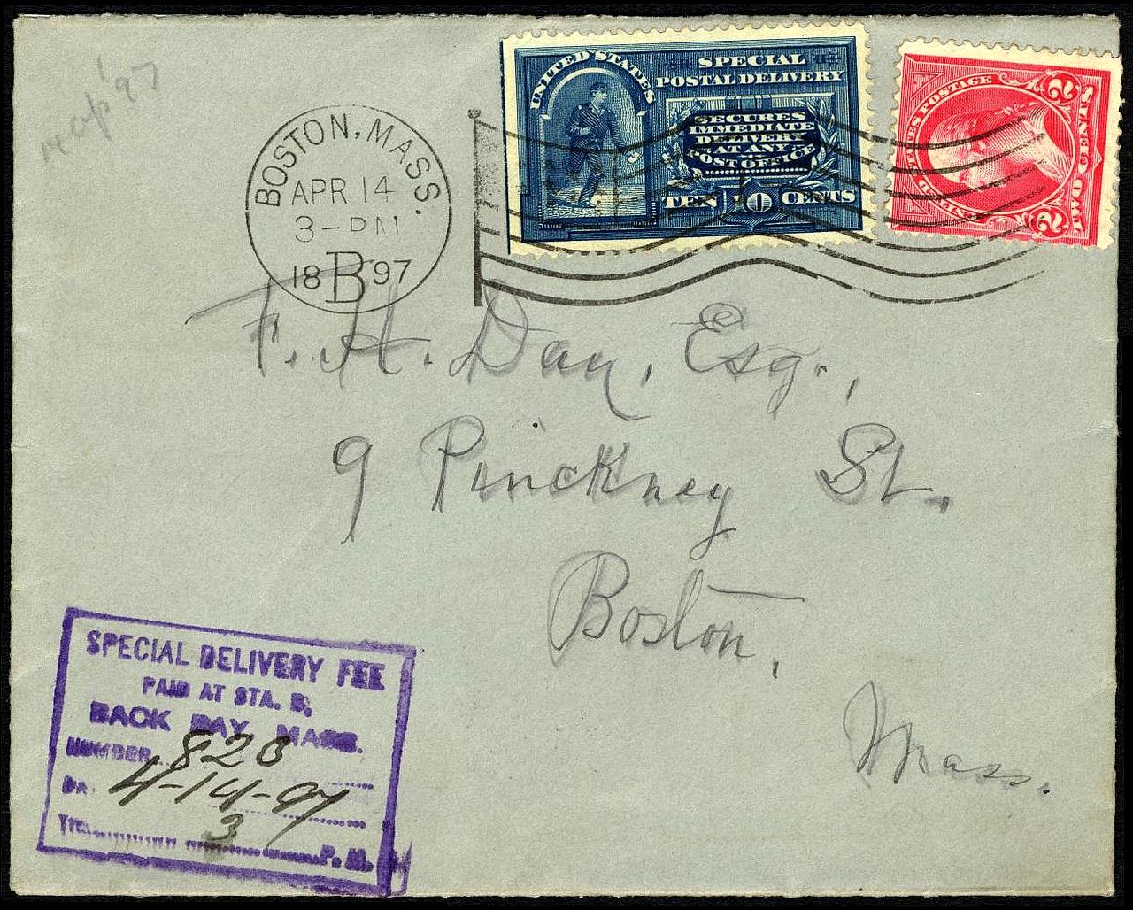 Image of Special Delivery cover, with 1897 postmark.